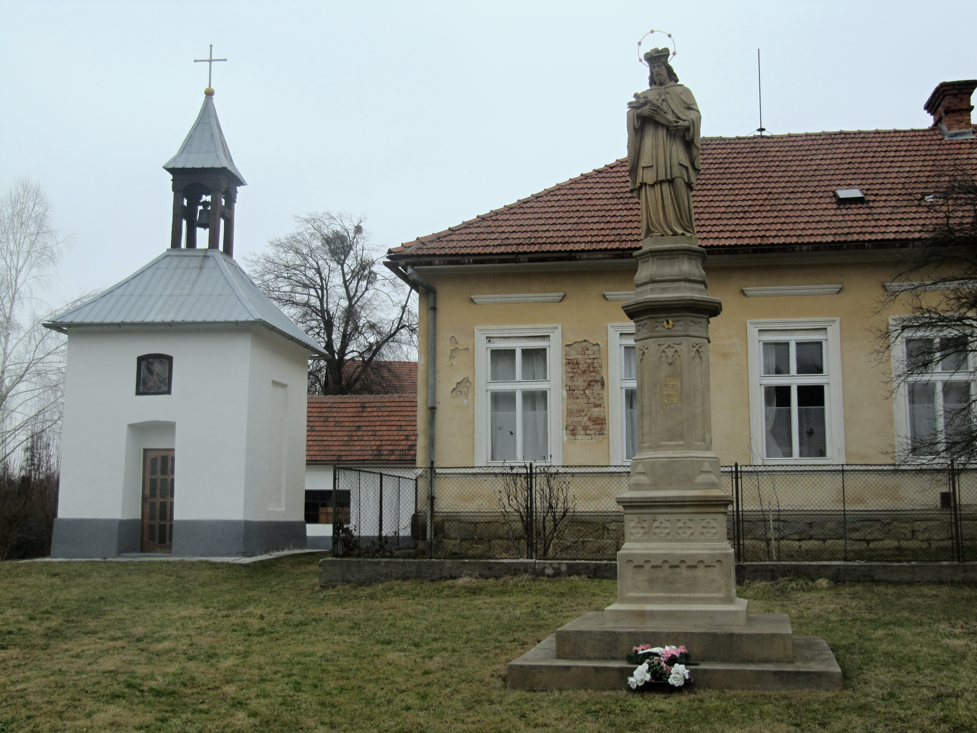 Zástřizly in Kroměříž District, Czech Republic. Common, chapel, St. John Nepomuk-statue and former school.